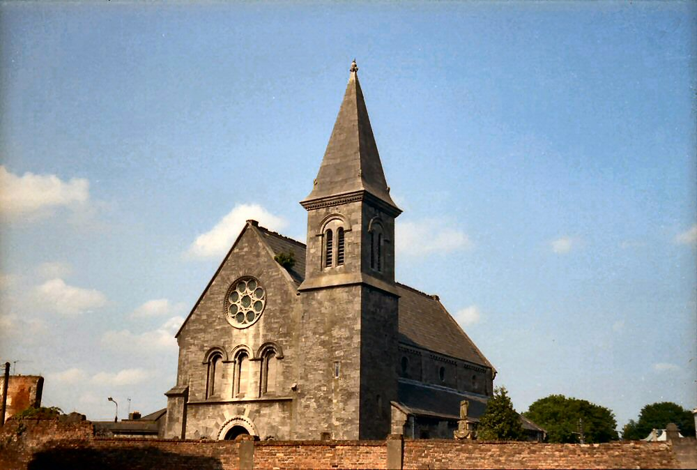 Saint John's Church of Ireland and cemetry, John's Square, Limerick. Taken in 1982 by Sean an Scuab.